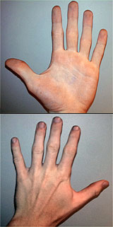 Left hand of human male